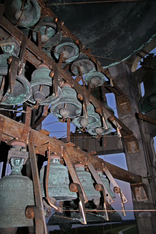 The clocks of the city hall of Veere